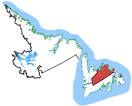 Map of the Bonavista—Gander—Grand Falls—Windsor electoral district. Based on Earl Andrew's maps, created by SimonP.